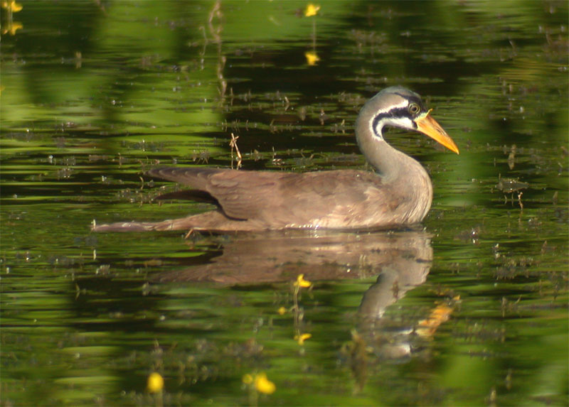 This lone Masked Finfoot (Heliopais personata) was photographed on 07 Feb 2007 in a pond at FRIM -a reserve at the northern outskirts of Kuala Lumpur. This is supposedly a female but it has a 'horn' that occurs on male. So there had been some controversies on its true gender and age. Its relatively tameness and persistance to the pond for nearly half a hear had made this one of the most watched rarity bird in Malaysia.